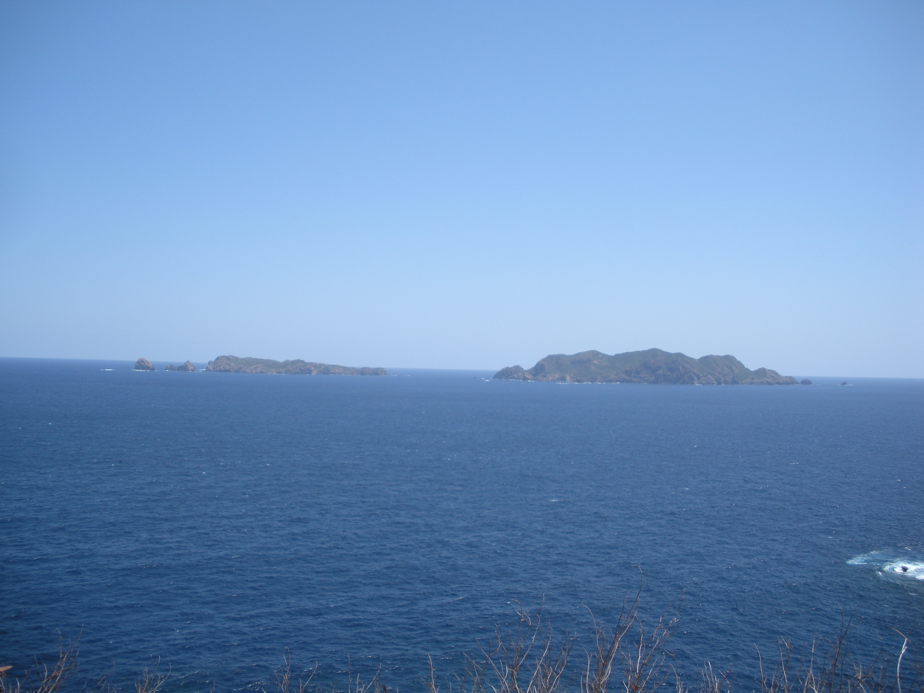 Meijima(Left) and Imotojima(Right) in Japan Bonin Islands